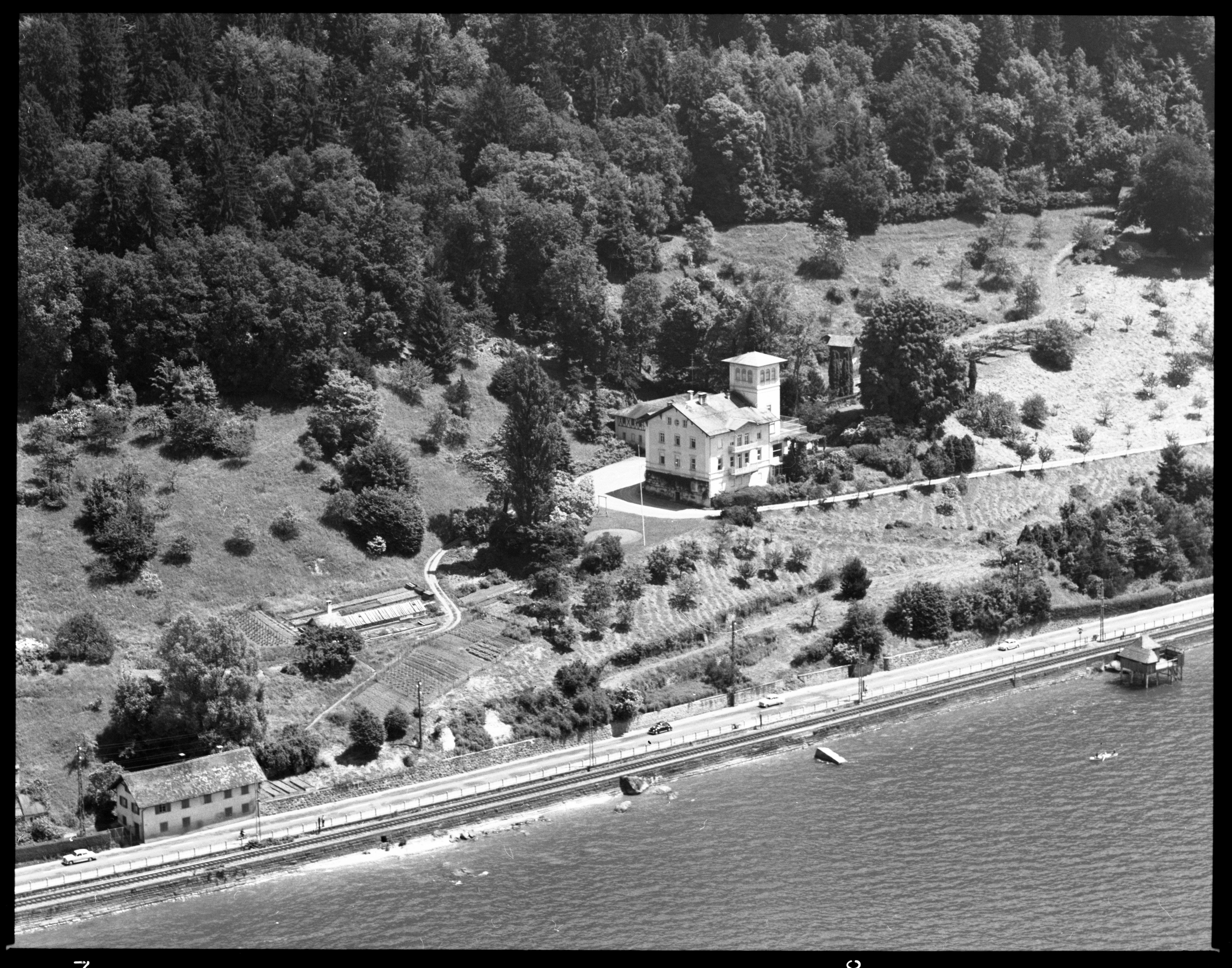 Villa Gravenreuth in Lochau, Vorarlberg, Austria (Lochau, Klause, Bregenz, L 190, Lochau, Villa Gravenreuth) from the collection: Historical oblique aerial photographs from the Vorarlberg State Library.